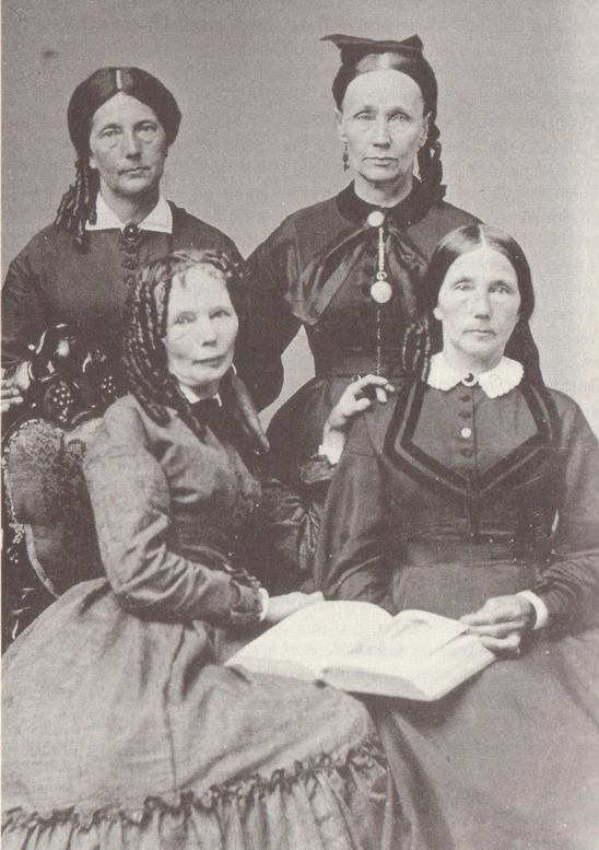 Delia Webster, abolitionist. Delia (front left) with her sisters: Mary Jane (front right), Martha (back left), Betsey (back right). Source: North Kentucky Views (